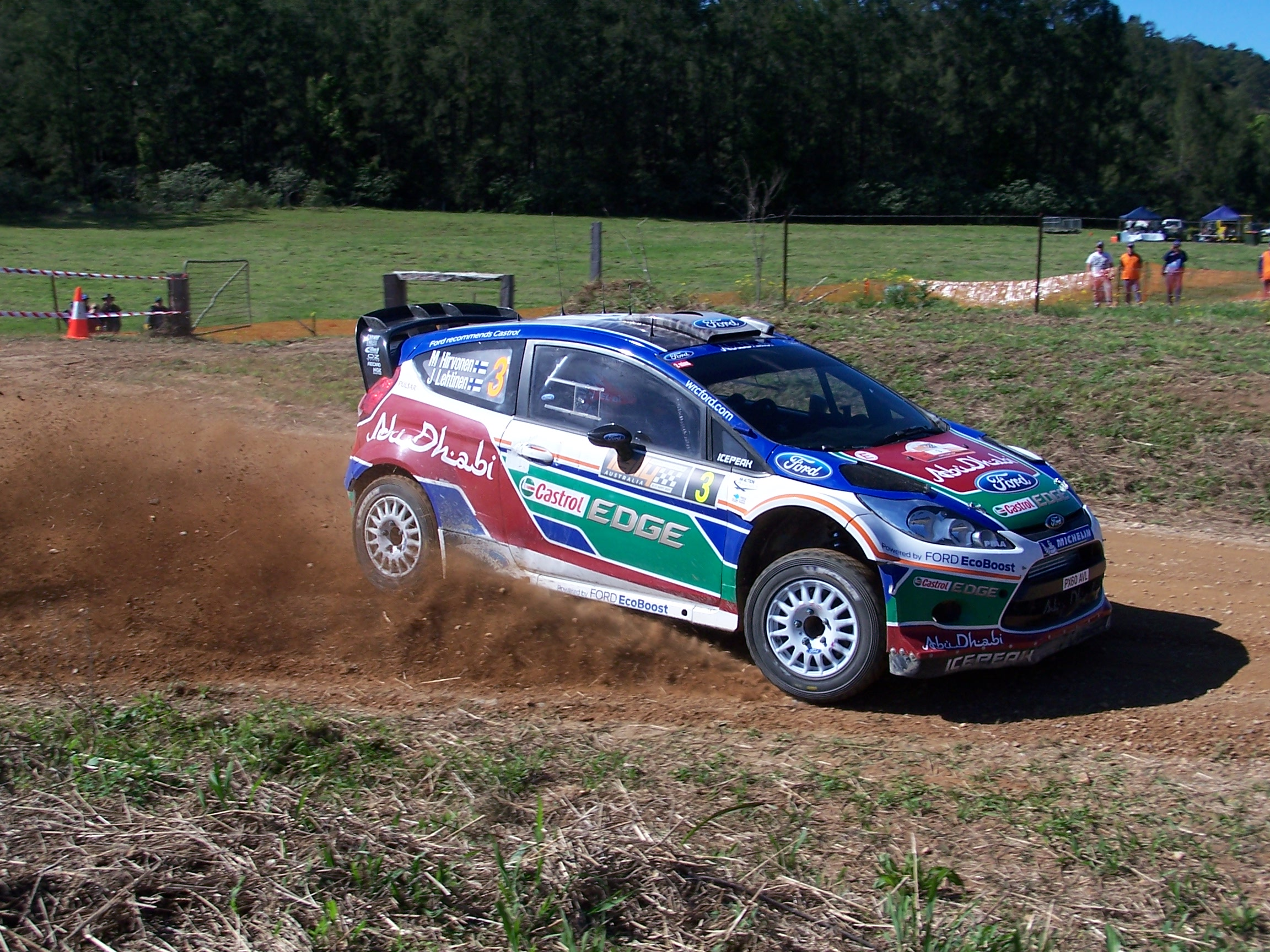 Mikko Hirvonen drives his Ford Fiesta RS WRC at the 2011 Rally Australia.